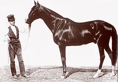 Norfolk bay stallion, 1861. By Lexington from Novice by Glencoe.